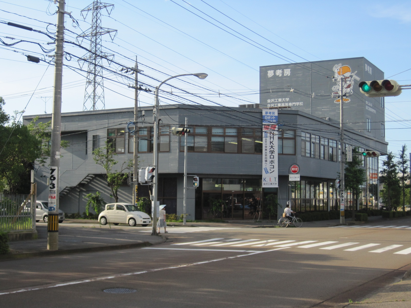 Yume Kobo(Kanazawa Institute of Technology)